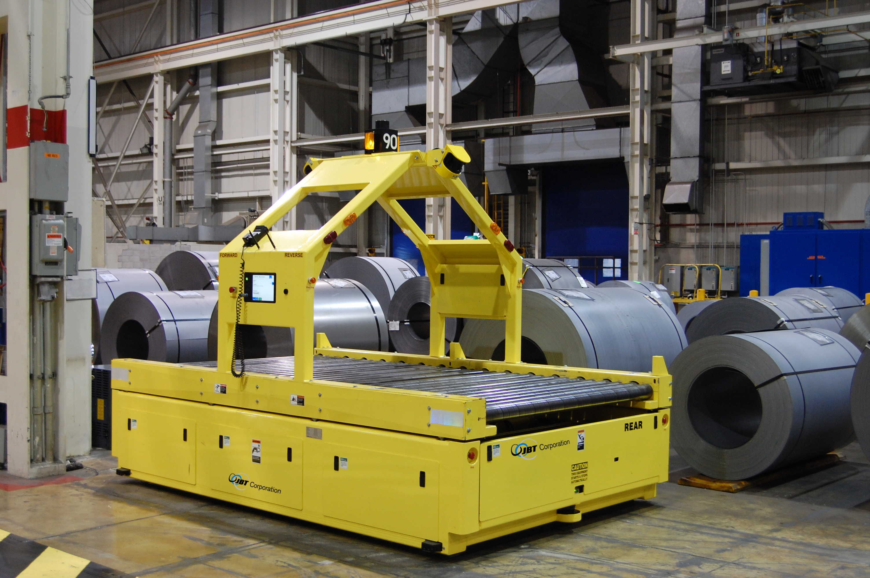 Photo taken from the JBT Corporation Photo Archives